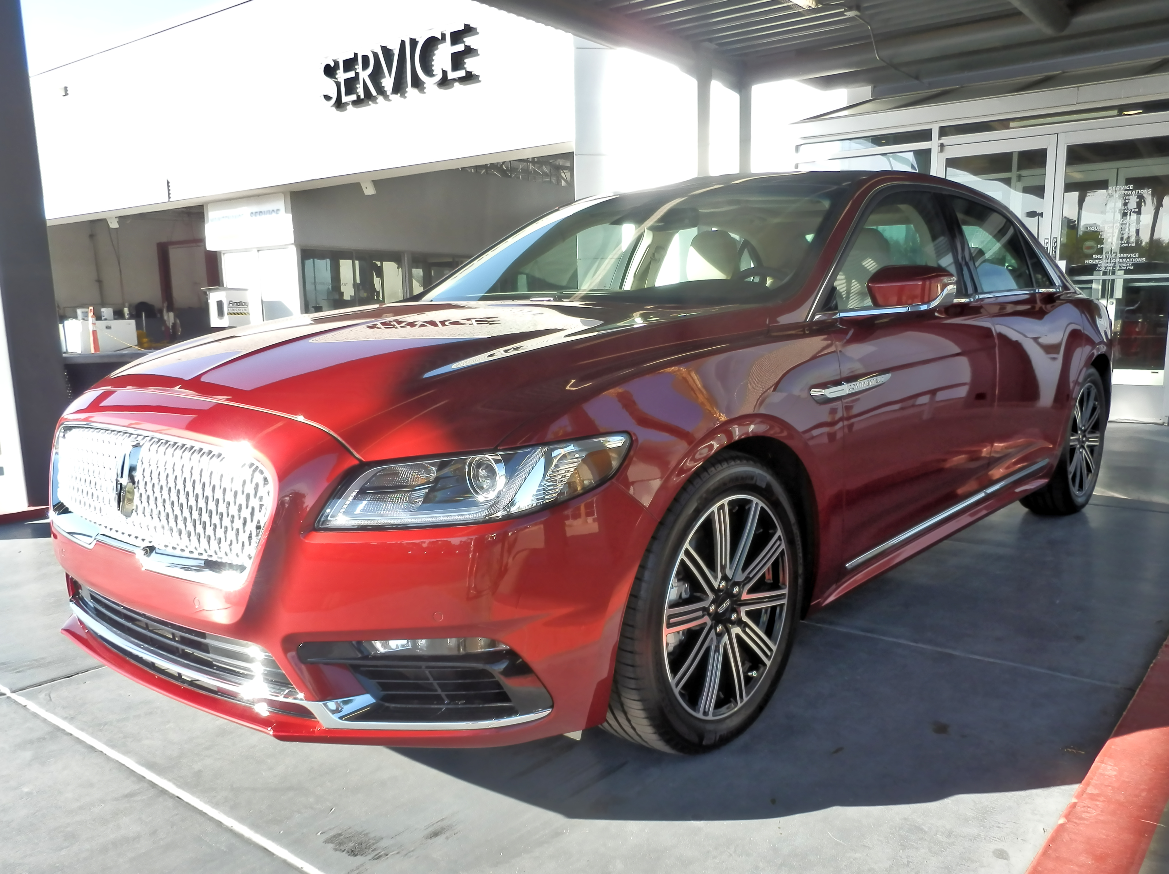 Lincoln Continental in Las Vegas